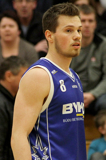 Stjarnan's Daði Lár Jónsson in a game against Grindavík on 22 January 2015.